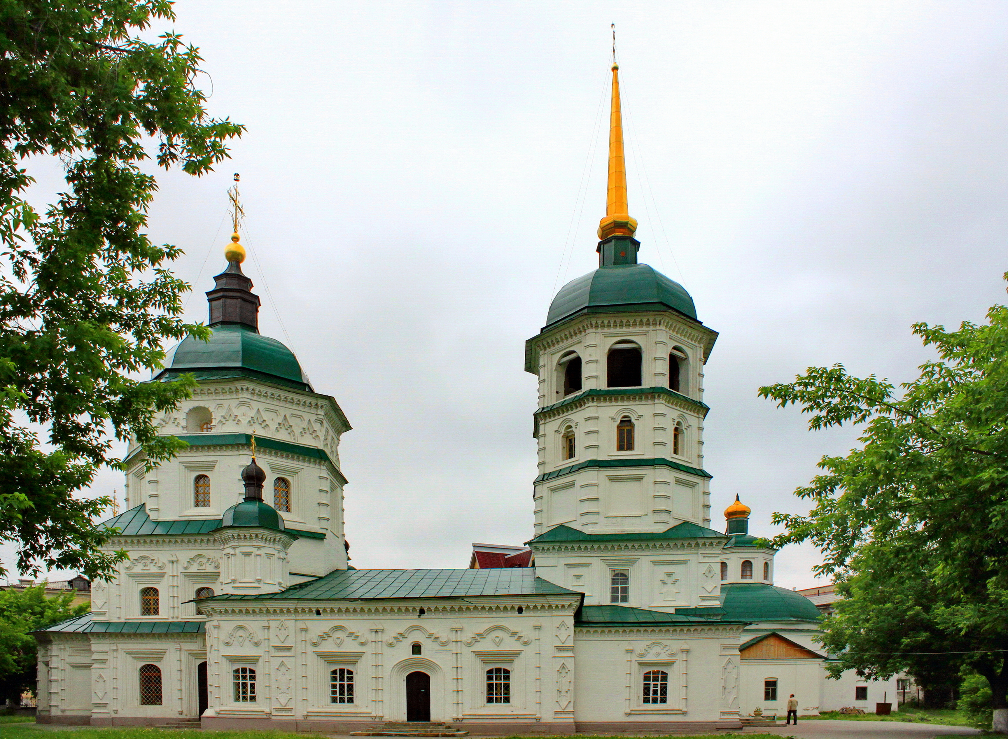 Holy Trinity church. Irkutsk, Russia.